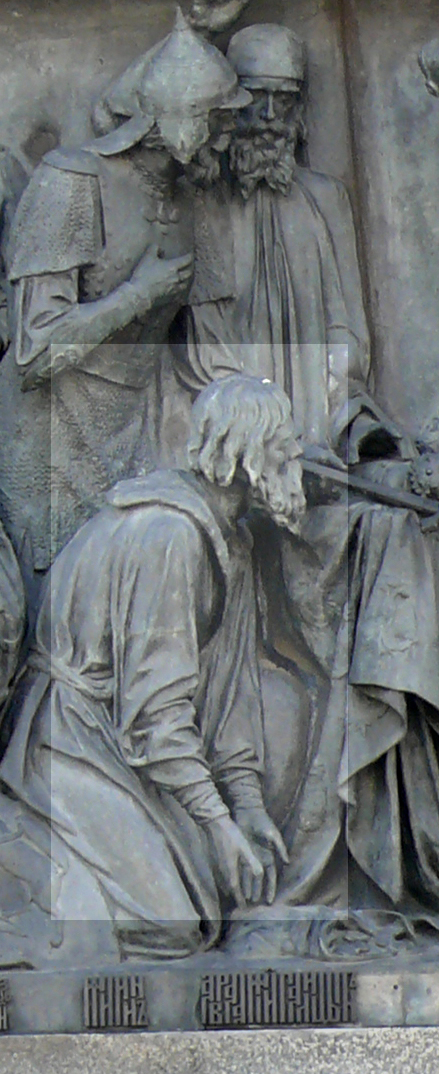 Kuzma Minin on the Monument "Millennuim of Russia" in Veliky Novgorod